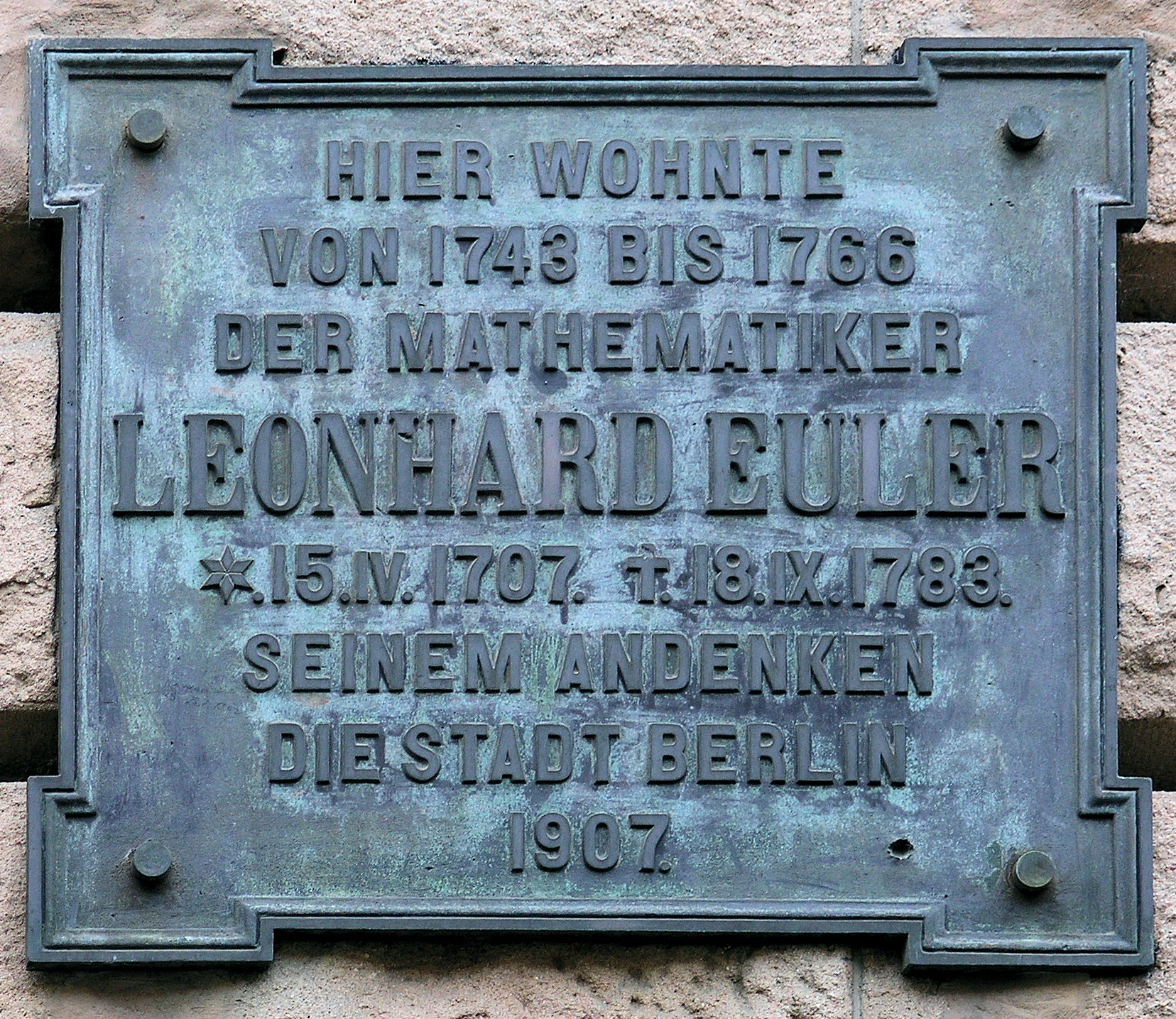 Commemorative plaque, Leonhard Euler, Behrenstraße 21/22, Berlin-Mitte, Germany